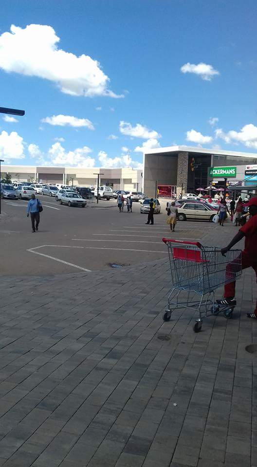 Botshabelo_Mall